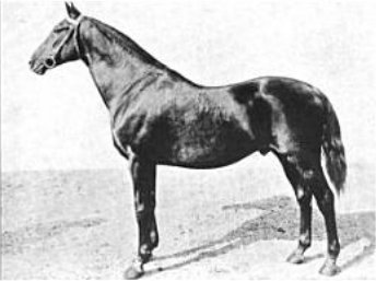 Thoroughbred racehorse Henry of Navarre, pictured after he was donated to the US Army as a sire for military horses.